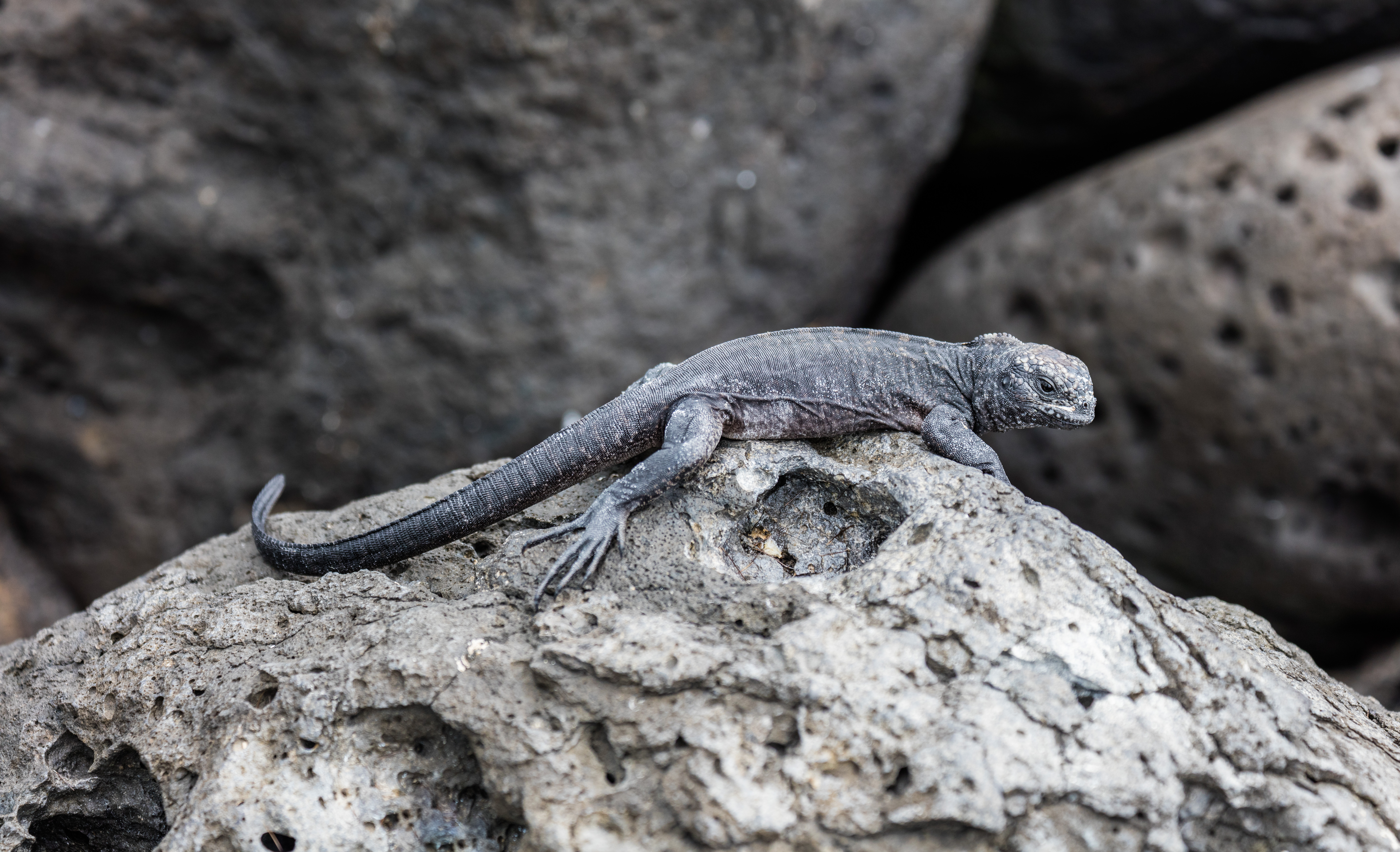 Exemplar of a juvenile marine iguana (Amblyrhynchus cristatus) lying on a rock in the coast of Lobos Island, Galápagos Islands, Ecuador.